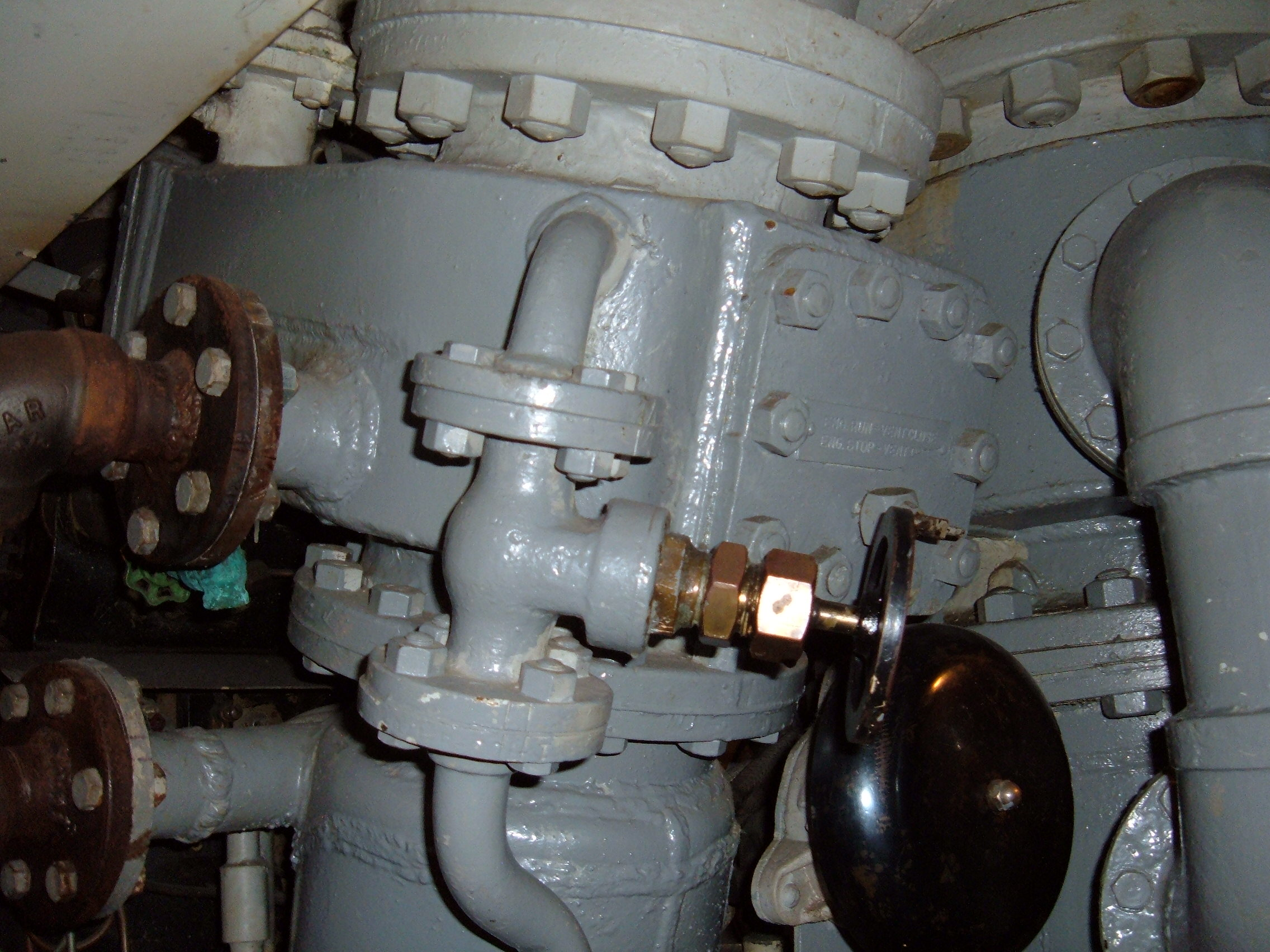 Ceiling valve and alarm bell located in the after engine room of the USS Pampanito (SS-383), berthed at Fisherman's Wharf in San Francisco.